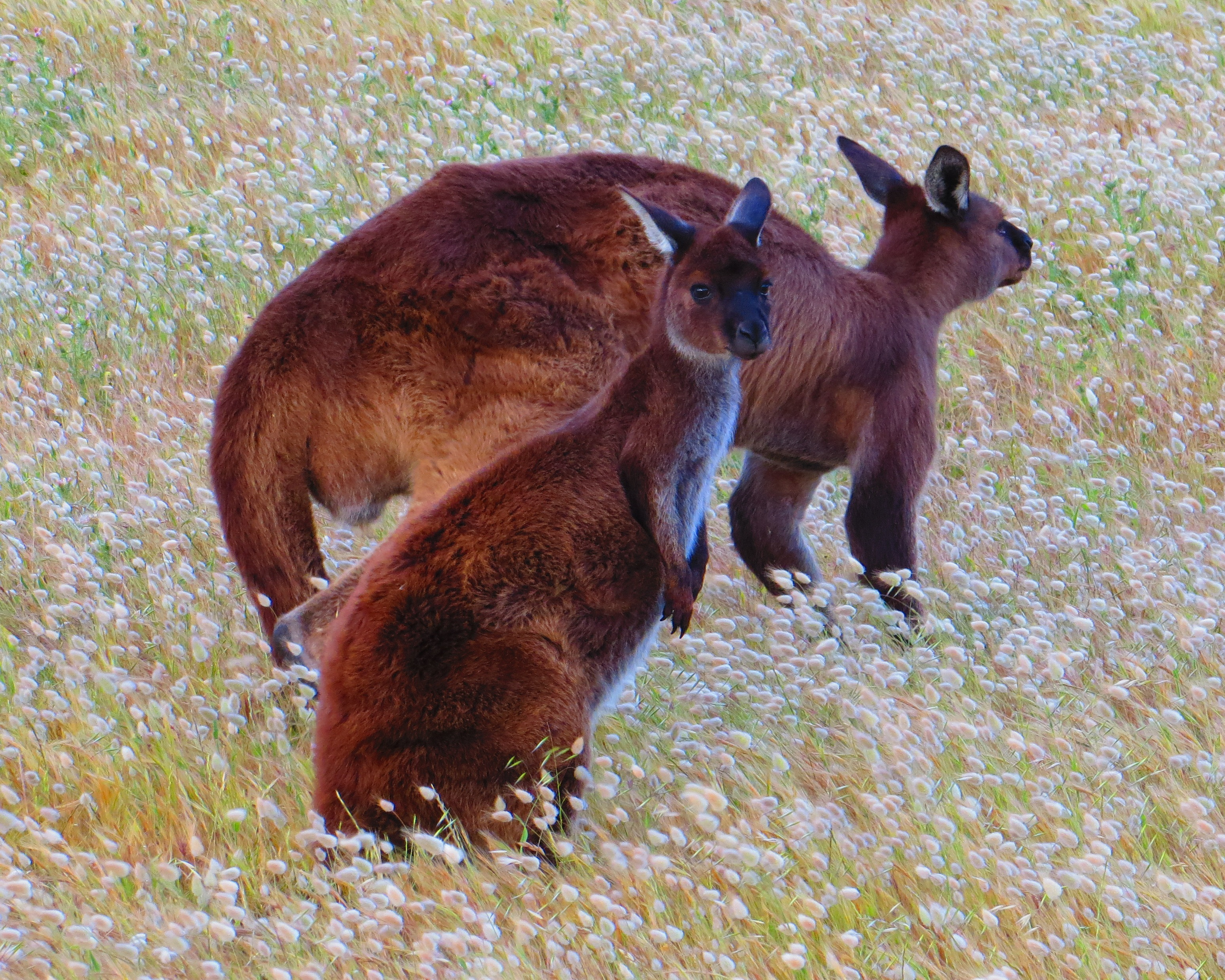 Kangaroo Island kangaroo (Macropus fuliginosus fuliginosus), Stokes Bay, Kangaroo Island, South Australia